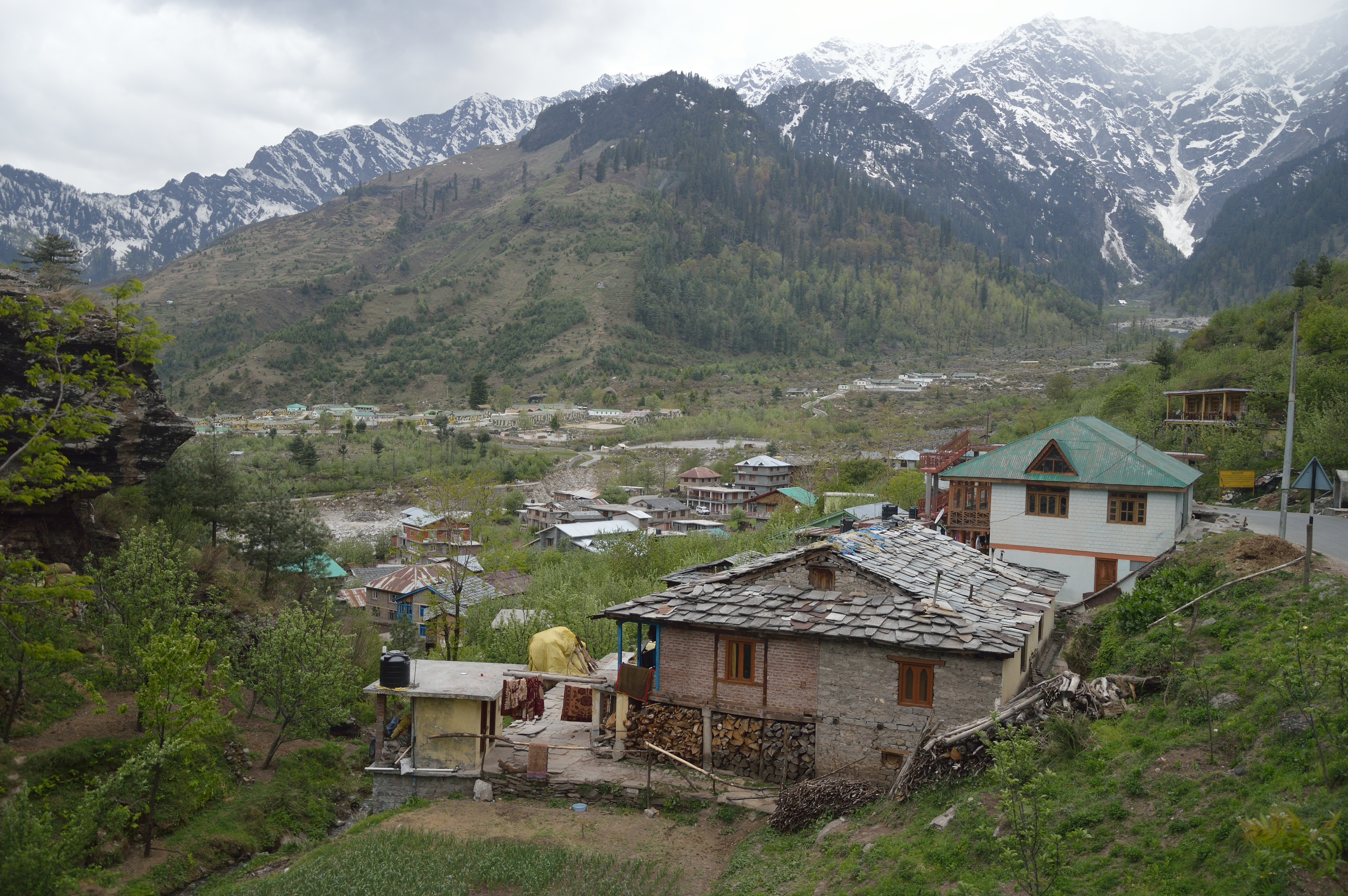 Photographed in Kullu district, Himachal Pradesh.